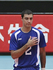 Jugador de voleibol Gregory Berríos en Japón en 2006